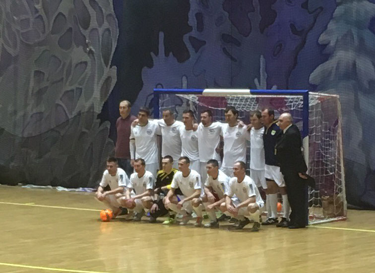 Sports School "Echo" team in 2016. Vasyl Simonov, Vitaly Chernyshov, Yevgen Yunakov, Oleksandr Kondratyuk, Aleksei Kudlay, Yevgen Krasnikov, Andrii Berezovchuk, Oleksandr Goryainov, Yuri Kobzar; Vyacheslav Chudnov, Vitaly Odegov, Yuriy Degtyarenko, Dmitry Fedorchenko, Vitaly Kiselev, Valery Zamyatin